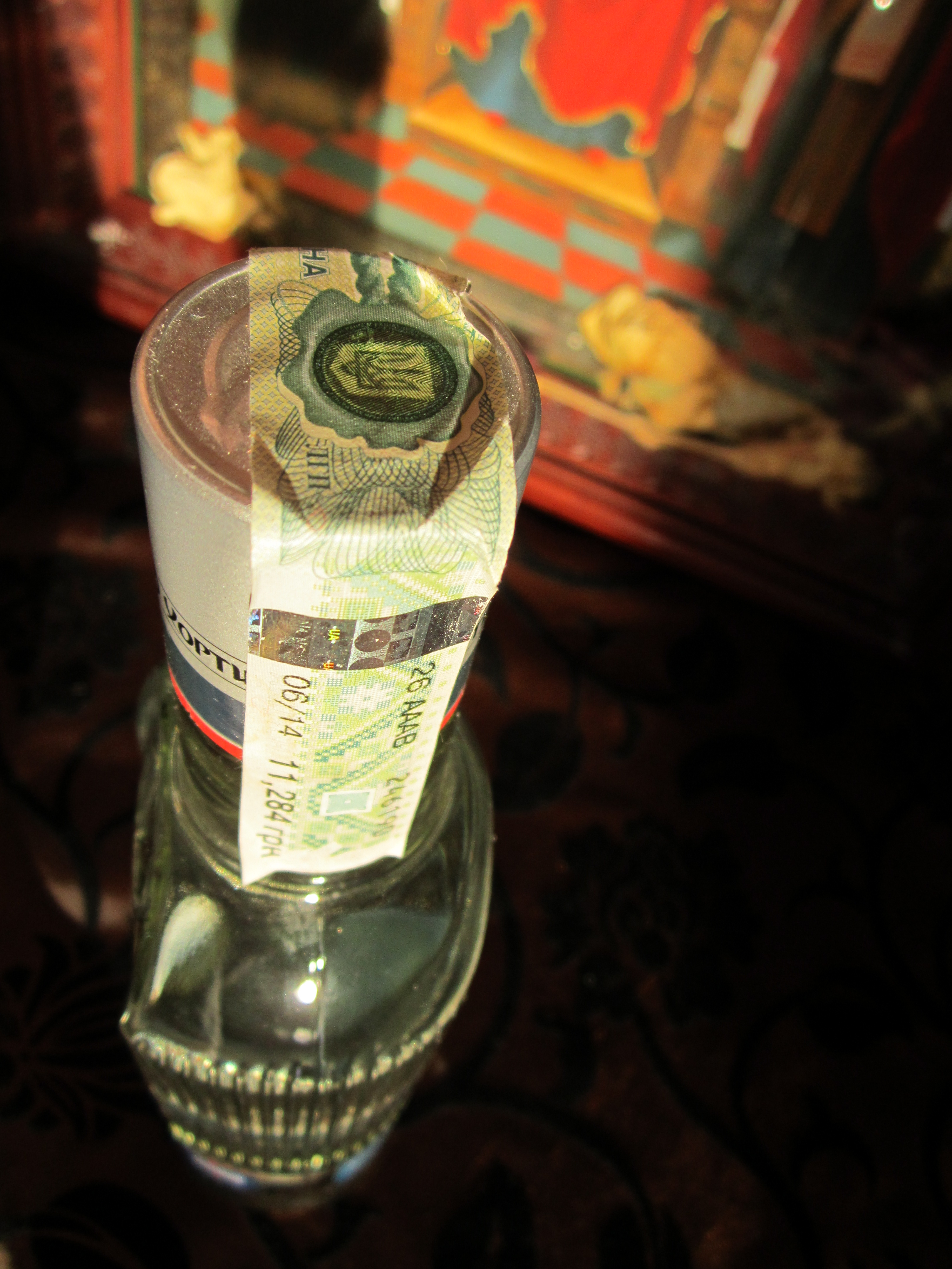 Ukraine Alcoholic Beverage Revenue Stamp, 2014